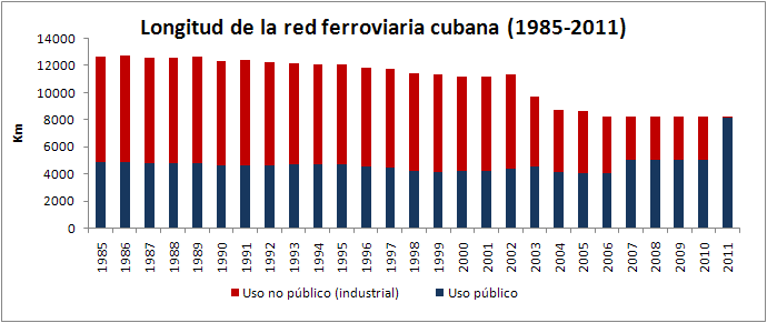 Length of the Cuban railways network from 1985 to 2011